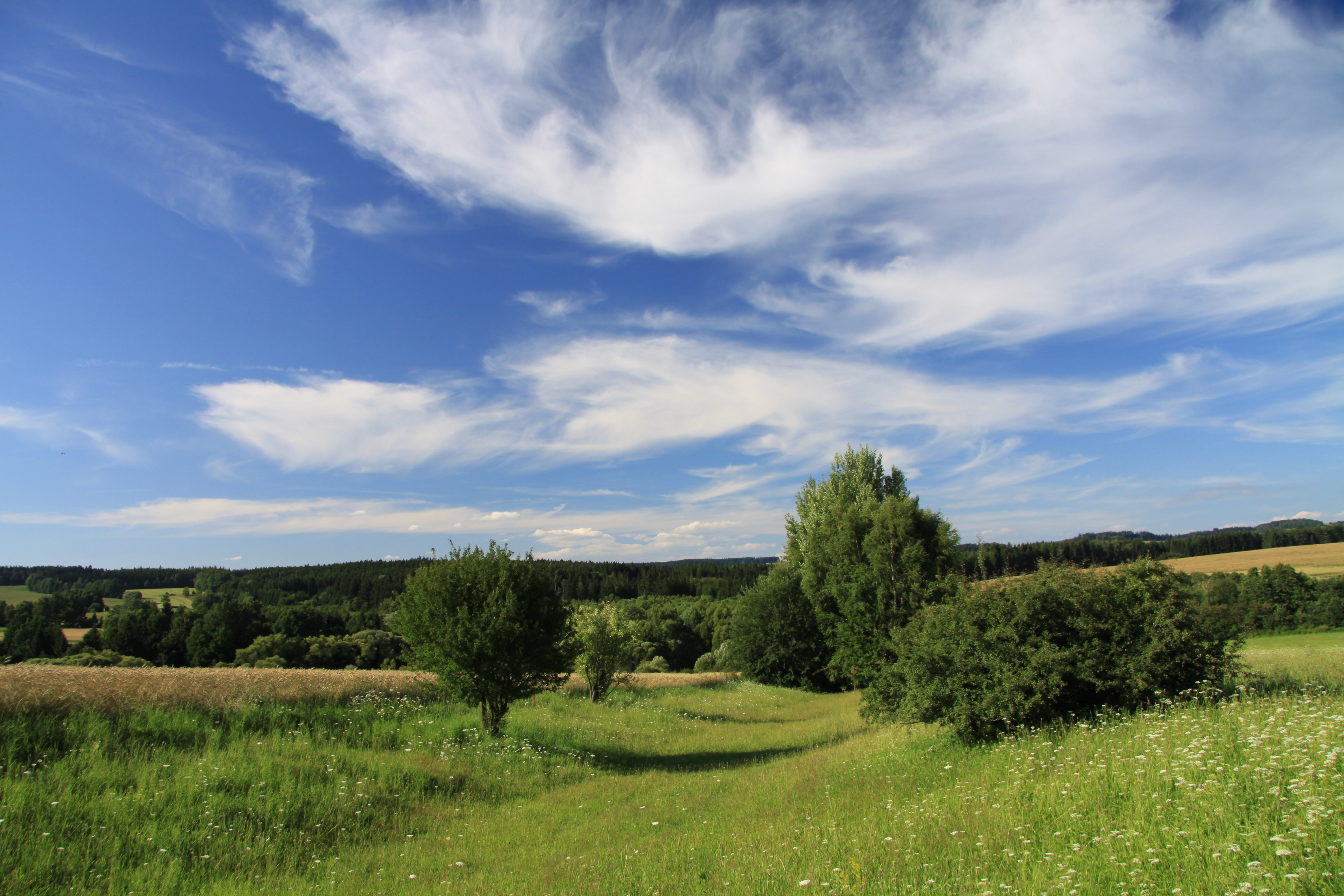 Natural monument Hroby near Hroby village in Tábor District, Czech Republic - Google Maps - Google Earth